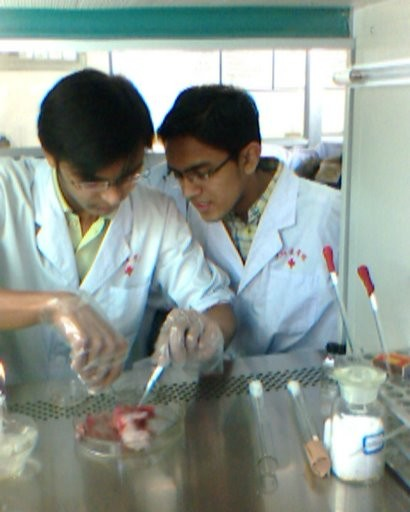 Medical student research program shenyang medical college,shenyang,china